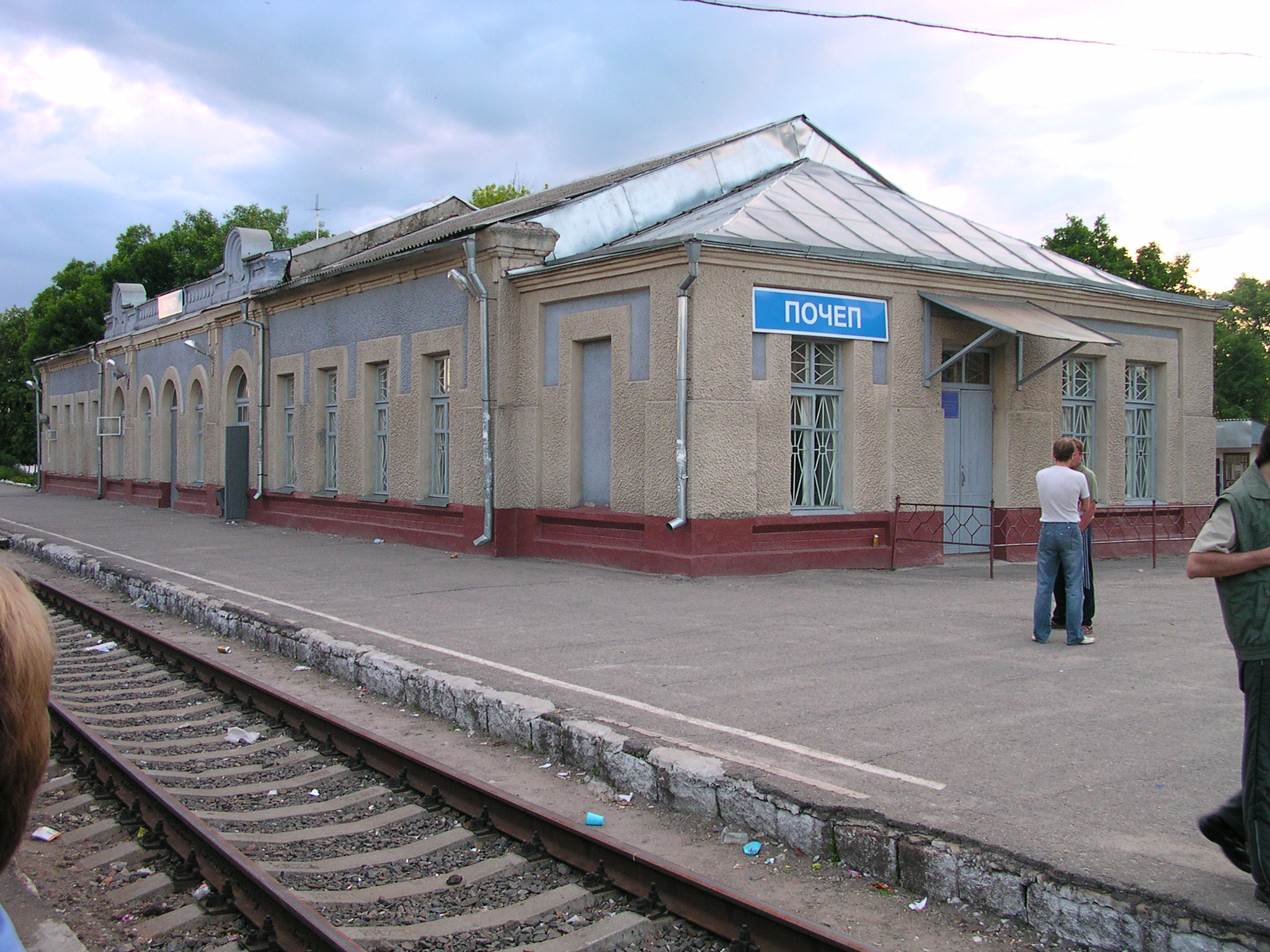 Train Station Pochep